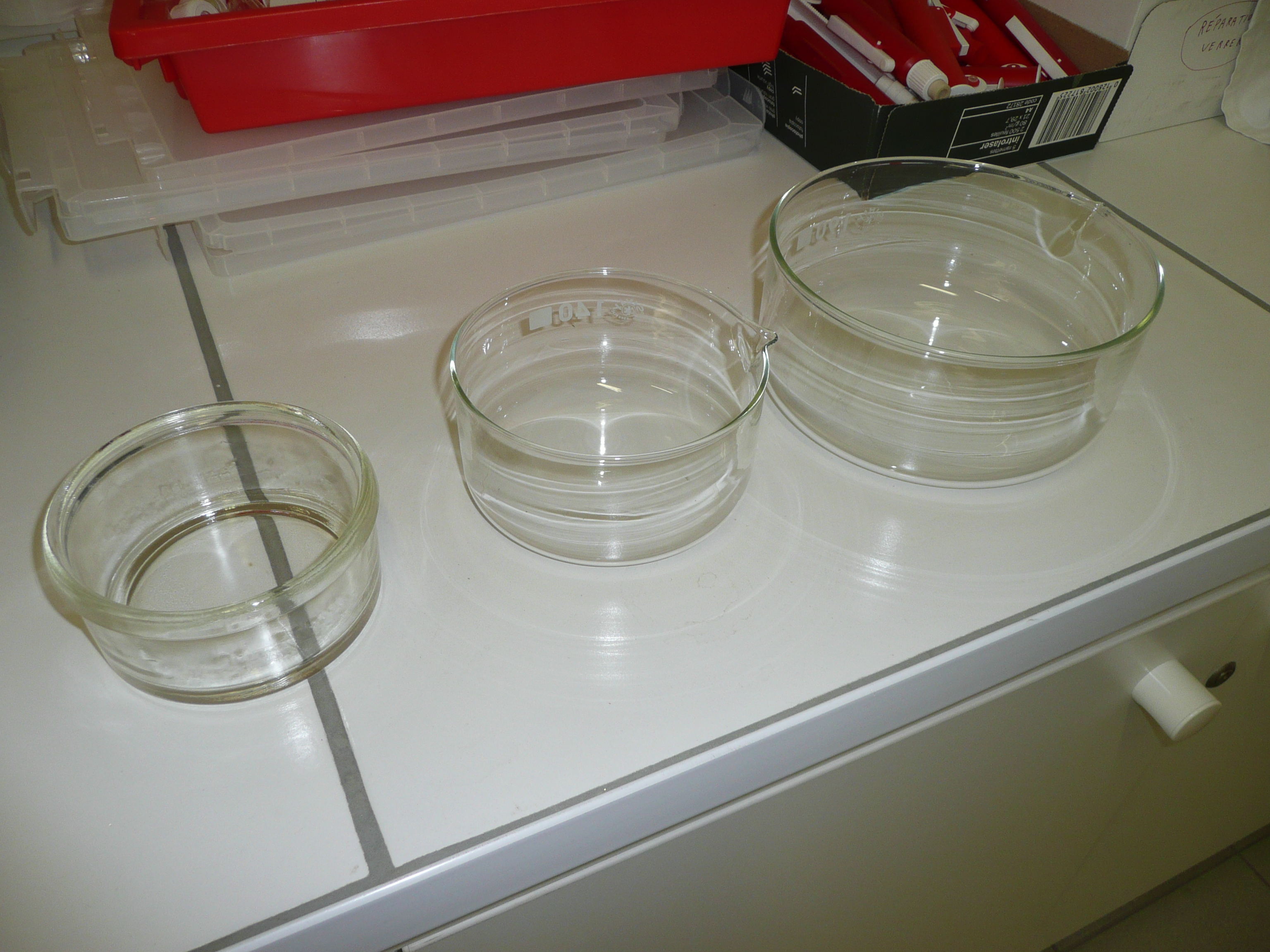 Crystallizing Dishes of several sizes, used in chemistry